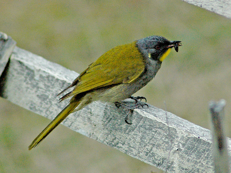 Yellow-throated Honeyeater Lichenostomus flavicollis eating an insect, Tasmania